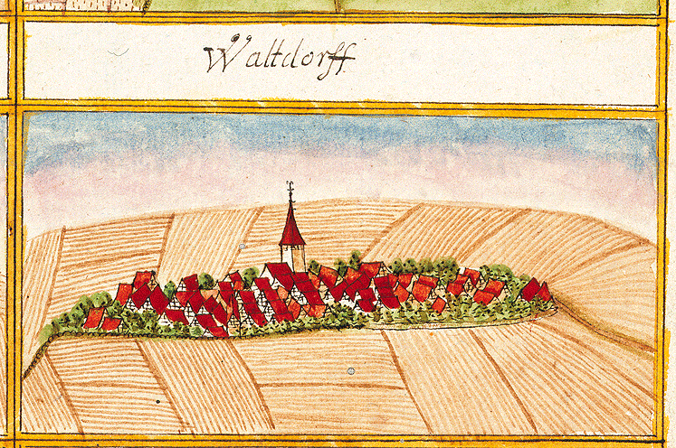 View of Walddorf, Walddorfhäslach, from the forest register books created by Andreas Kieser